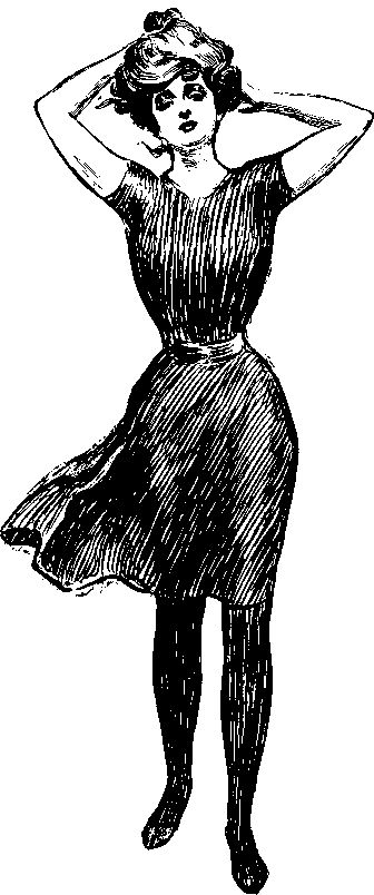 Gibson Girl in ca. 1900 beach attire.